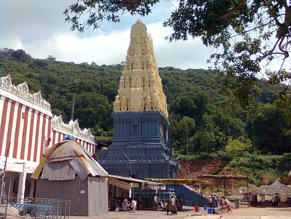 A Side View of Simhachalam temple gopuram